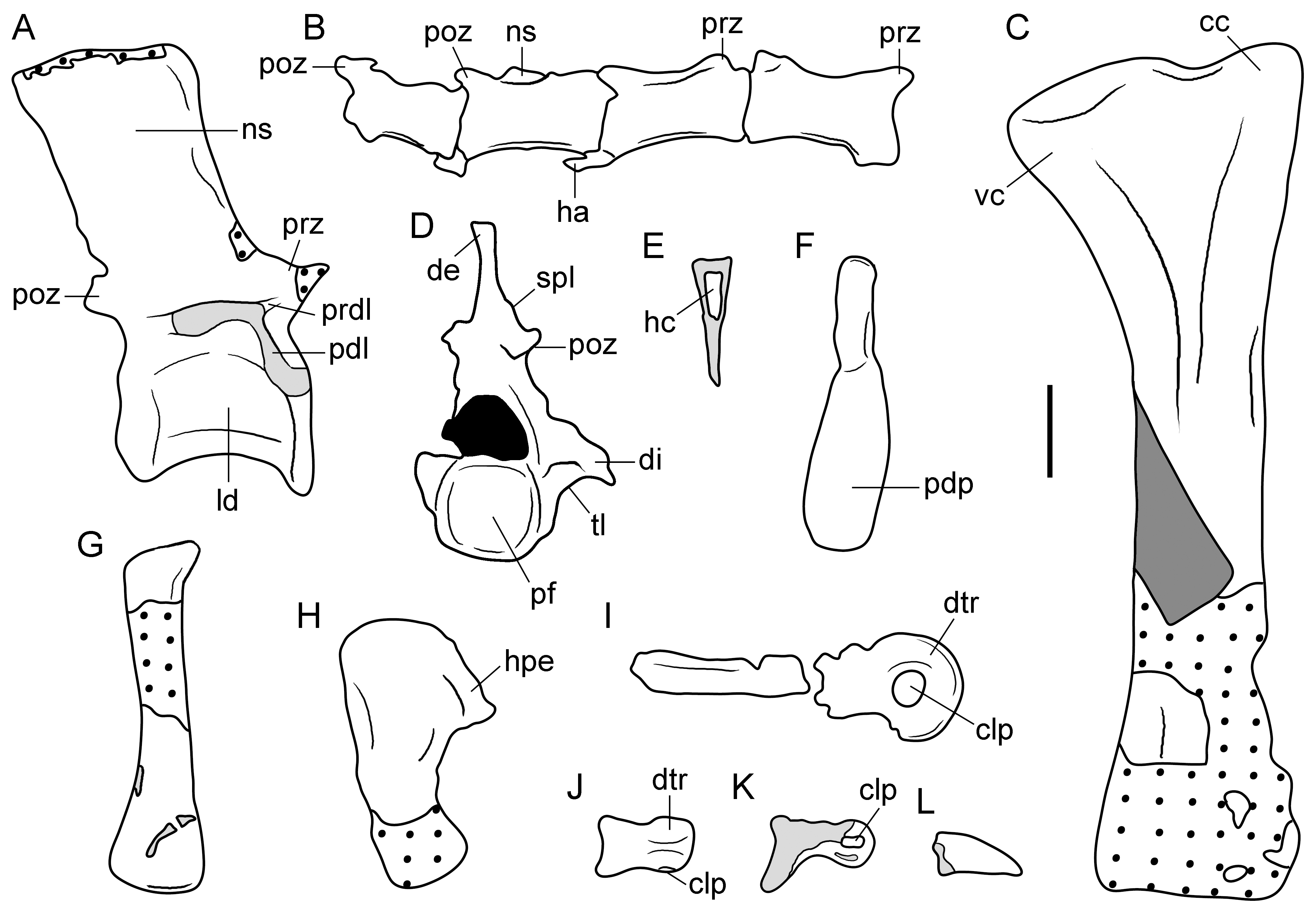 Figure 10. Line drawings of selected postcranial bones of type specimen (UTGD 54655) of Tasmaniosaurus triassicus. A, anterior or middle dorsal vertebra and B, middle caudal vertebrae in right lateral views; C, tibia in lateral or medial view; D, cervico-dorsal vertebra in posterior view; E, proximal half of haemal arch in crosss-section; F, anterior or middle haemal arch in right lateral view; G, probable metatarsal II and H, metatarsal V in dorsal or ventral views; I, proximal pedal phalanx in side view; J, pedal phalanx in ventral view; K, pedal phalanx in side view; and L, ungueal pedal phalanx in side view. Areas with dotted lines are bone impressions, light grey areas are damaged bone, and neural canal in black. Abbreviations: cc, cnemial crest; clp, collateral pit; de, possibly artificial distal transverse expansion; di, diapophysis; dtr, distal trochlea; ha, haemal arch; hc, haemal canal; hpe, hook-shaped proximal end; ld, lateral depression in the centrum; ns, neural spine; pdl, paradiapophyseal lamina; pdp, plate-like distal end; pf, posterior articular surface; poz, postzygapophysis; prz, prezygapophysis; prdl, prezygodiapophyseal lamina; spl, spinopostzygapophyseal lamina; tl, thick lamina; vc, ventral condyle. Scale bar equals 1 cm.